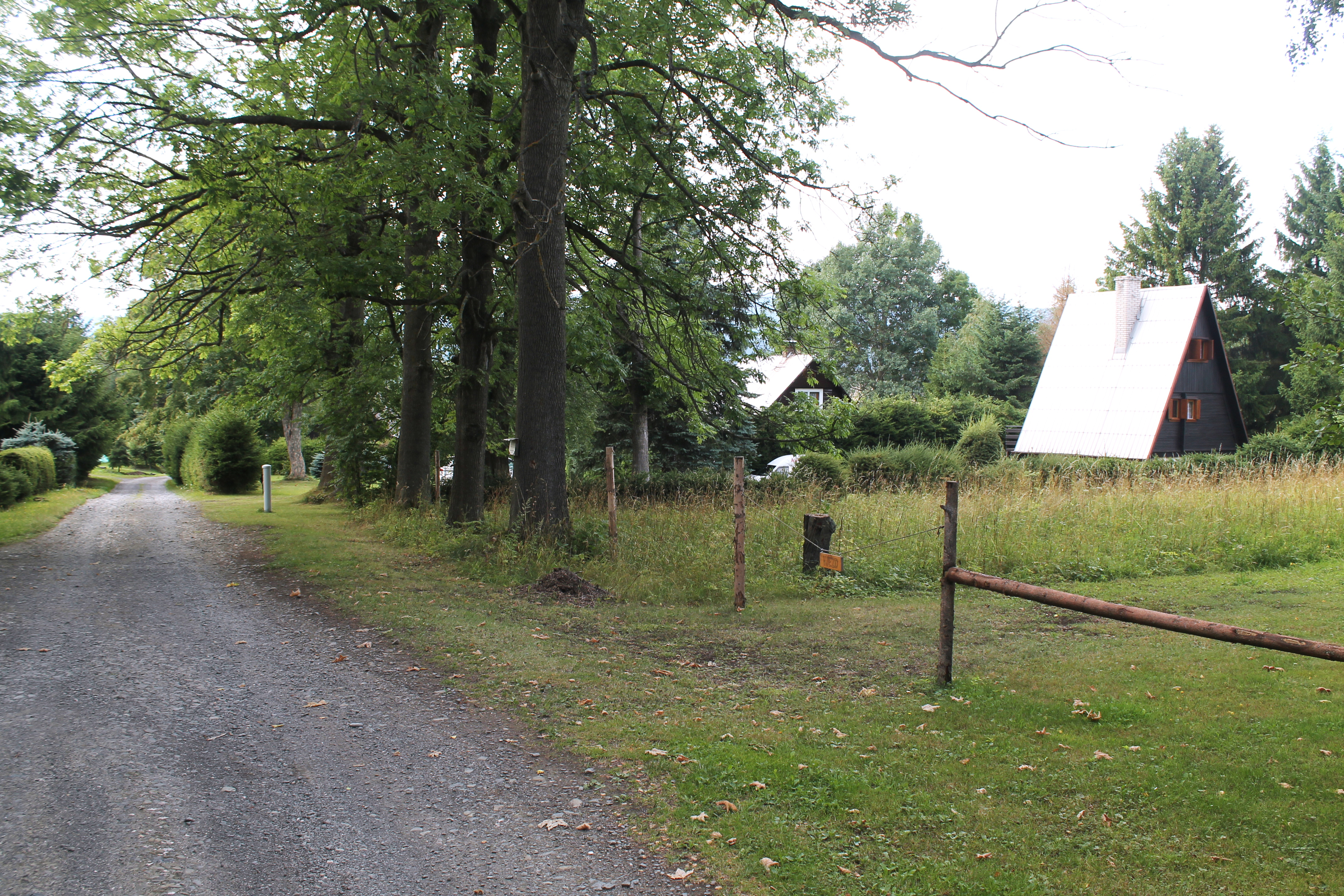 Nová Rudná, Rudná pod Pradědem, Bruntál District, Czech Republic